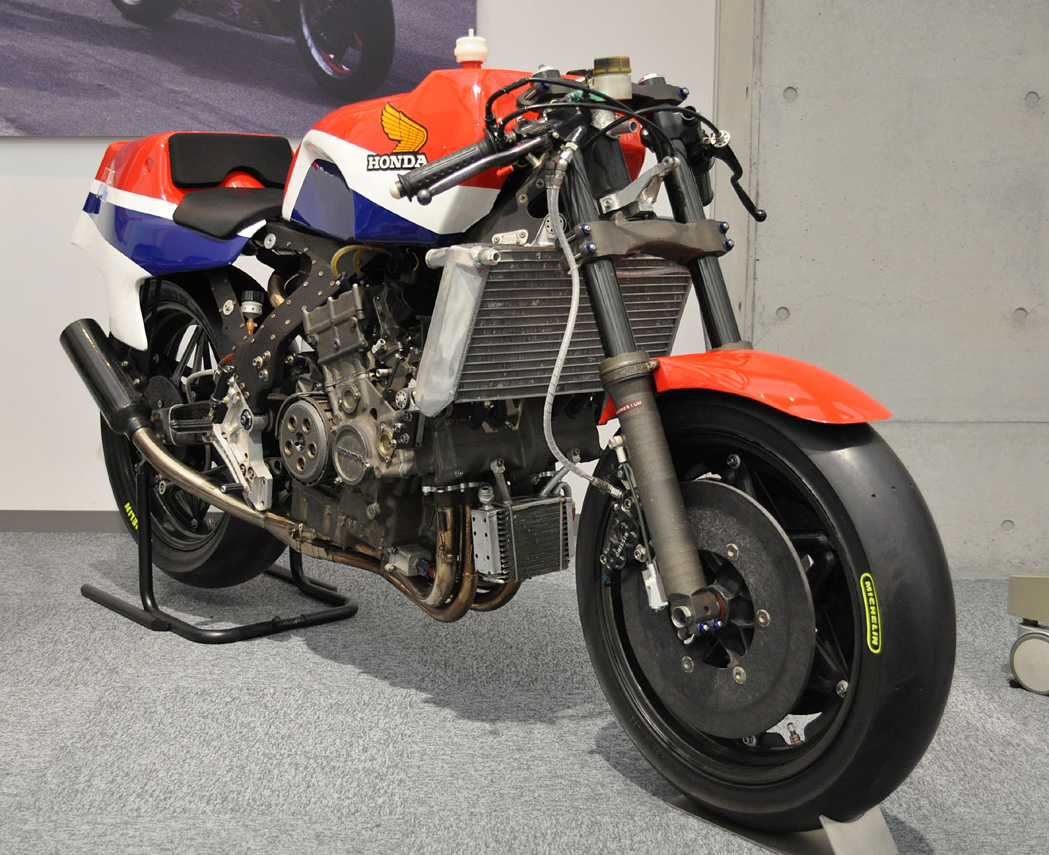 Honda NR500 ( The trial product which was exhibited at Tokyo Mortor Show in 1983 )